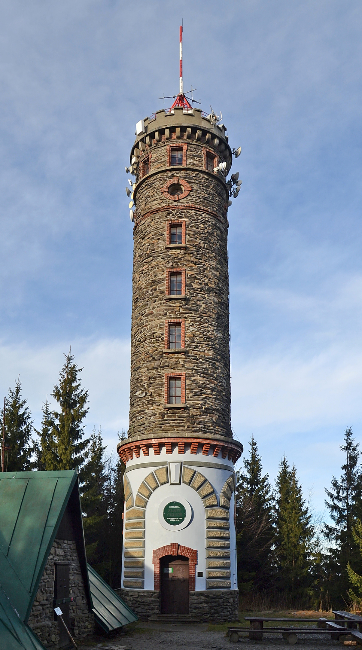 Zlatý Chlum (Goldkoppe) - observation tower